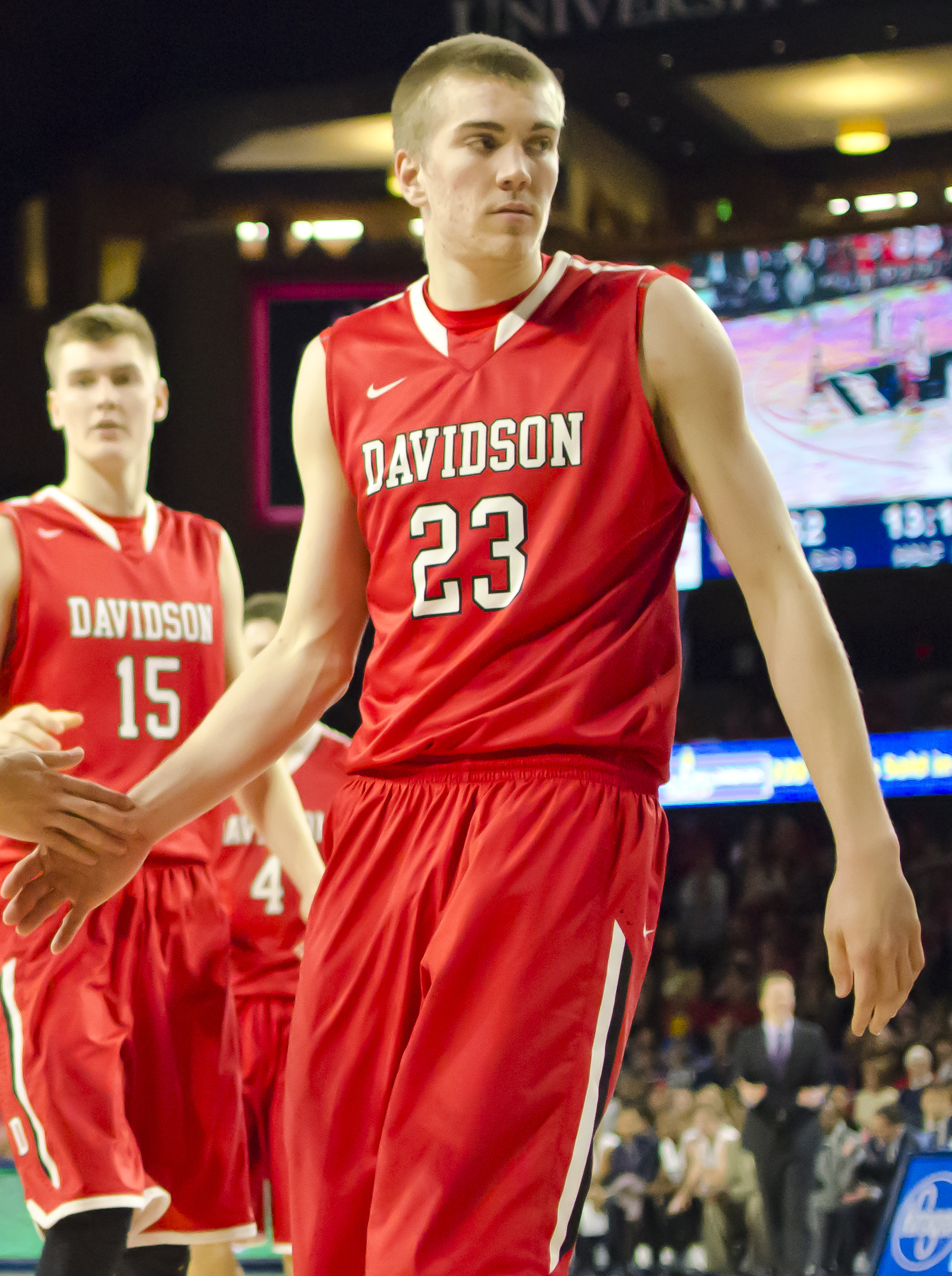 Peyton Aldridge of Davidson